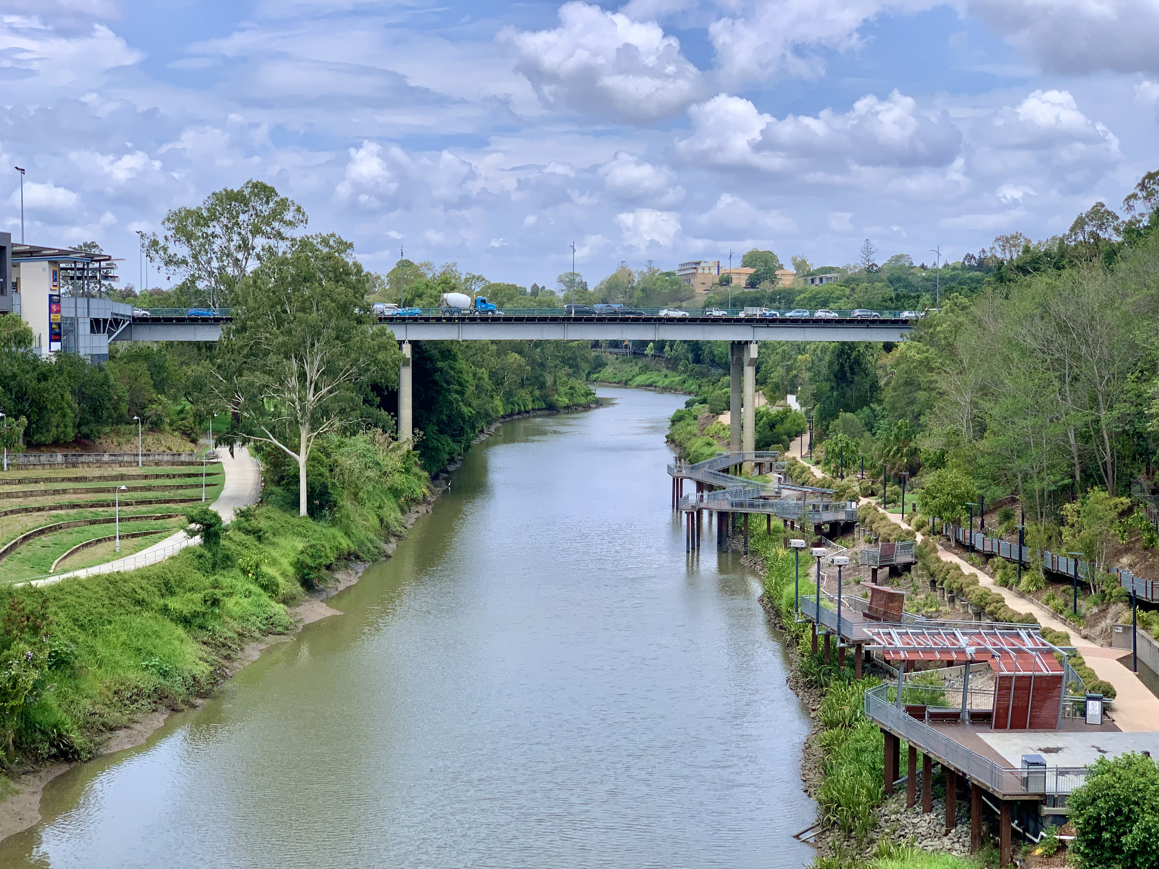 David Trumpy Bridge over Bremer River and Parklands, Ipswich, Queensland in 2020